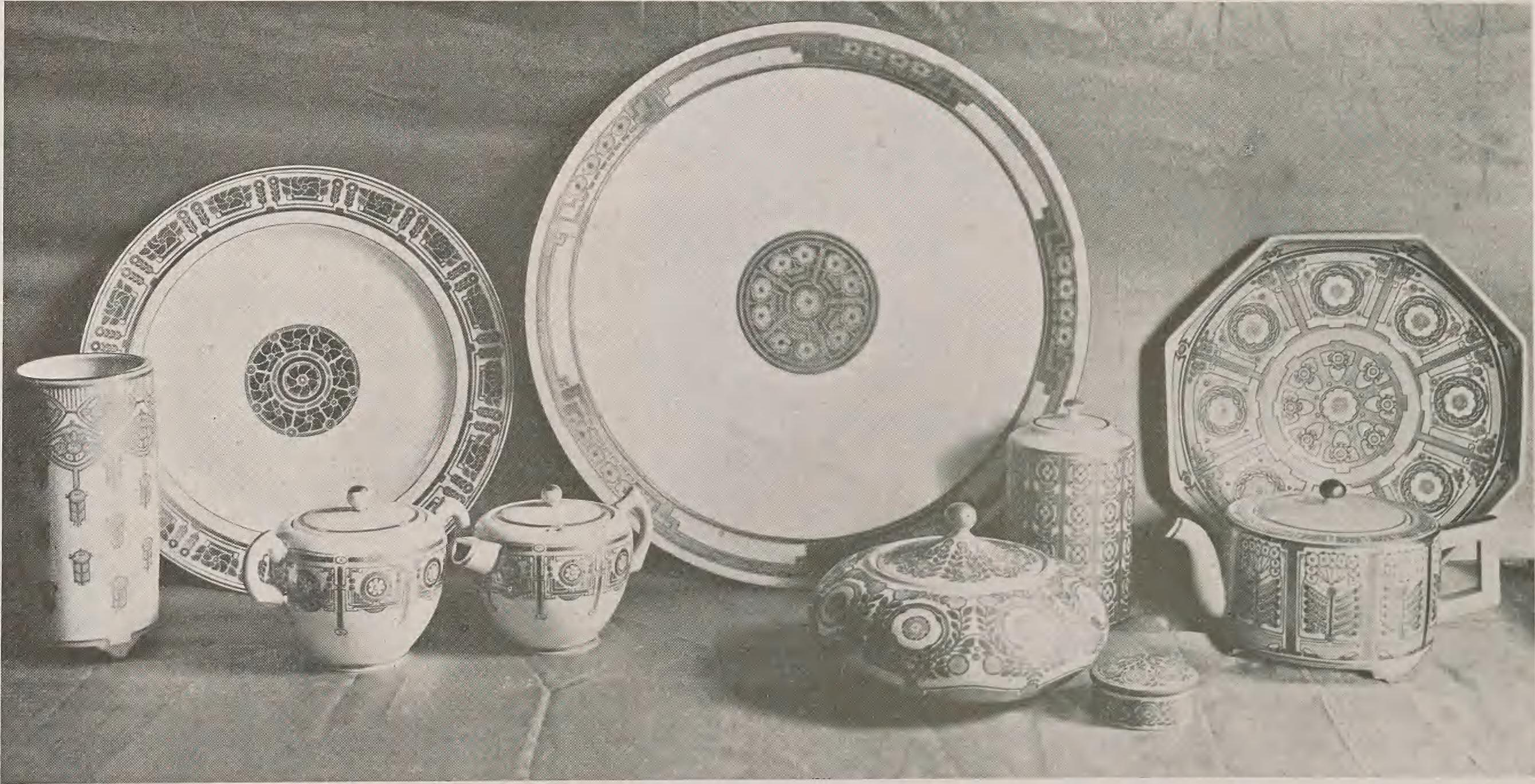 Title: Keramic studio Year: 1899 (1890s) Authors: Leonard, Anna B Robineau, Adelaide Alsop, 1865?-1929 Subjects: Periodicals Pottery Decoration and ornament Publisher: Syracuse, N.Y. (etc.) : Keramic Studio Publishing Co Text Appearing Before Image: MRS. K. E. CHERRY AND PUPILSCHICAGO ARTS AND CRAFTS EXHIBITION was shown. Grace McDermott of Fond du Lac, Wisconsin,had a fine exhibit, a very large vase in enamel colors onsatsuma body being of good draughting, design and execution,and giving some idea of the artists favorite type of work. Mrs. K. E. Cherry and pupils sent an admirable display ofoverglazed work. The designs were handsome or quaint to suitthe forms to be decorated, the colors spirited and varied. These workers have a style all their own that could not be improvedupon. As it would be impossible to give every one a mention wewill close with the Paul Revere Pottery products made by theSaturday Evening Girls of Boston. Not only young peoplebut grownups enjoy the nursery rhymes illustrated in gaycolors on tableware. Text Appearing After Image: MRS. K. E. CHERRY AND PUPILSCHICAGO ARTS AND CRAFTS EXHIBITION KERAMIC STUDIO 199